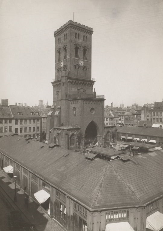 The market stalls (for butchers) at the ruin of St. Nicolas' Church Tower - now Nikolaj Plads - in Copenhagen, Denmark